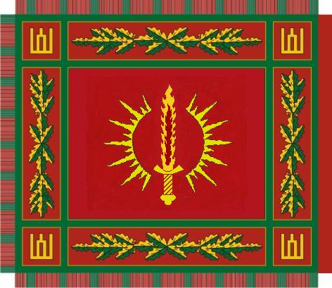 Flag of Lithuanian Special Forces